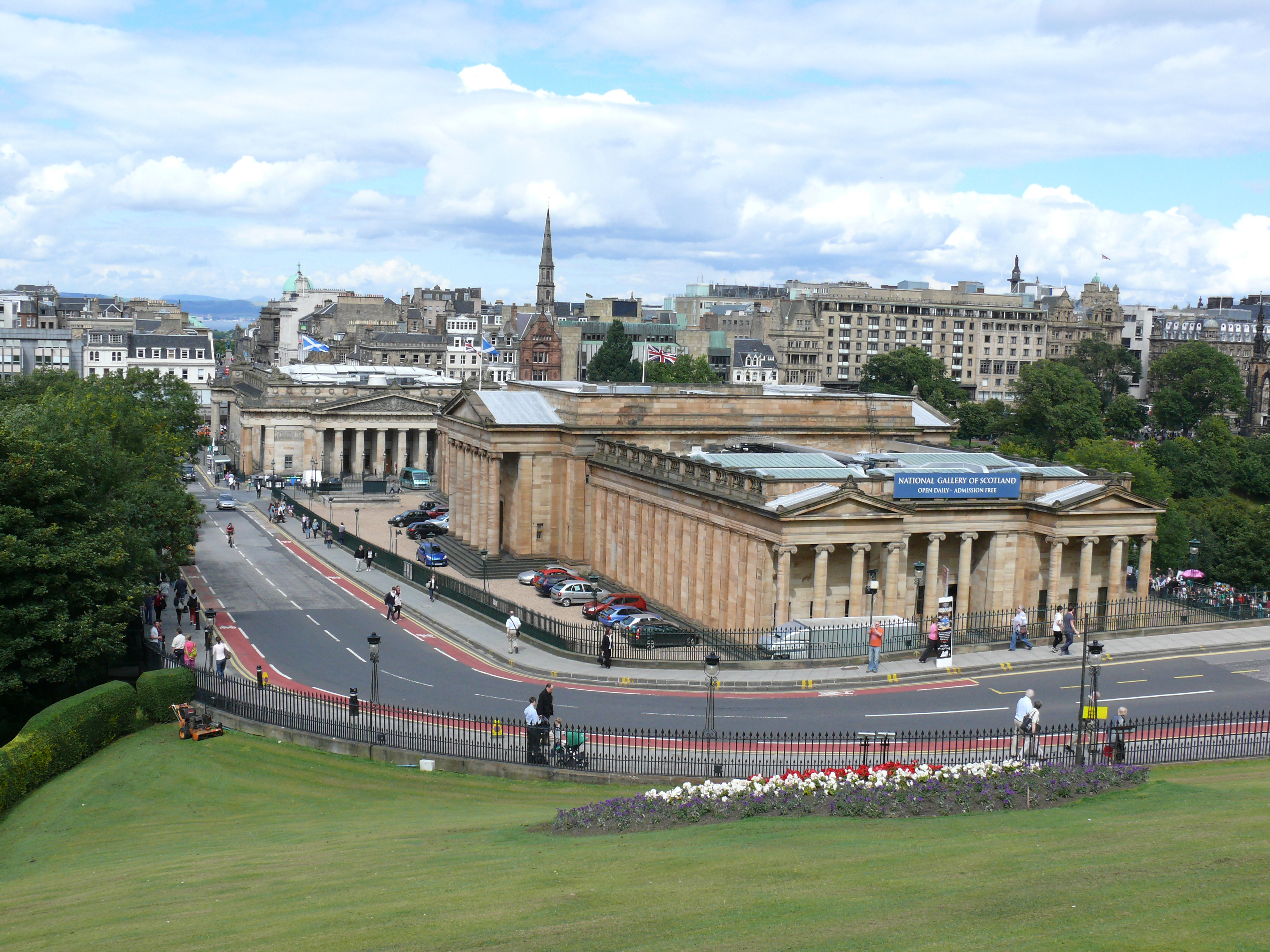 View of The Mound from Mound Terrace, towards Princes Street (Edinburgh, Scotland).